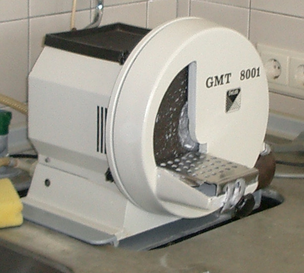 Model trimmer